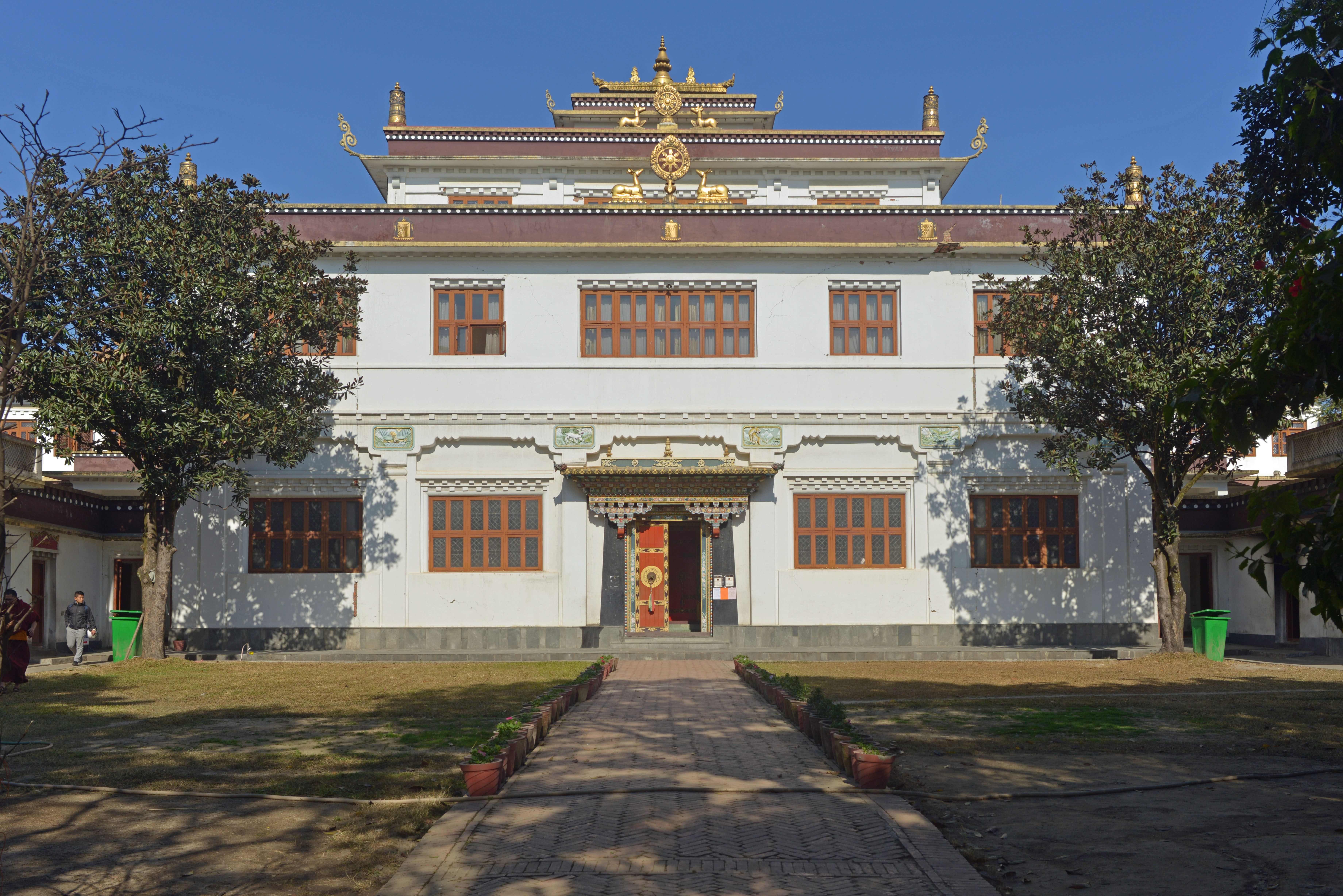 The main temple at Ka-Nying Shedrub Ling monastery, Boudha, Kathmandu Nepal. in December 2015